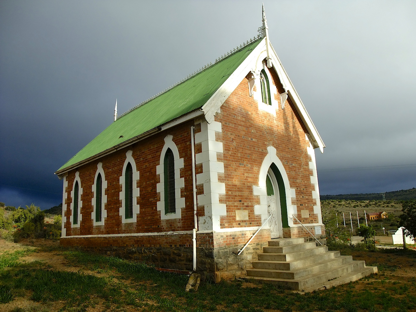 Old Church 1903 Middleton This media shows a South African Protected Site with SAHRA file reference 0.